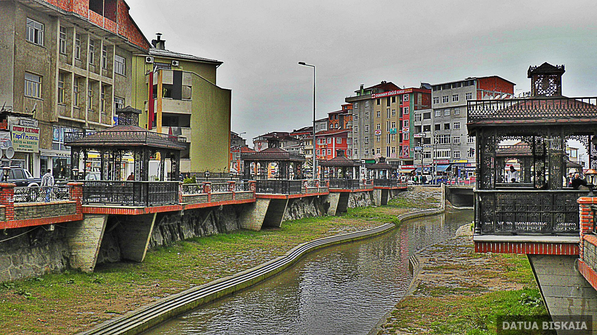 Ardeşen (Artasheni) city centre